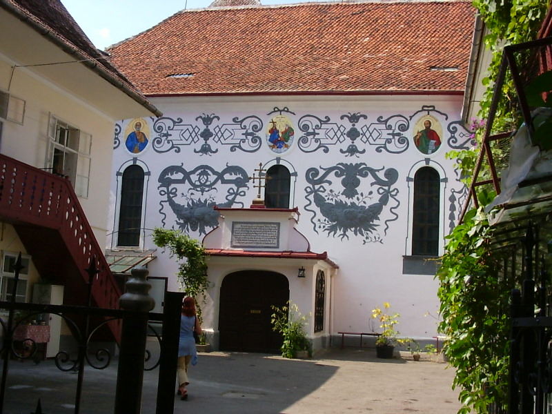 church of the former "greek" trading company in Braşov's inner town